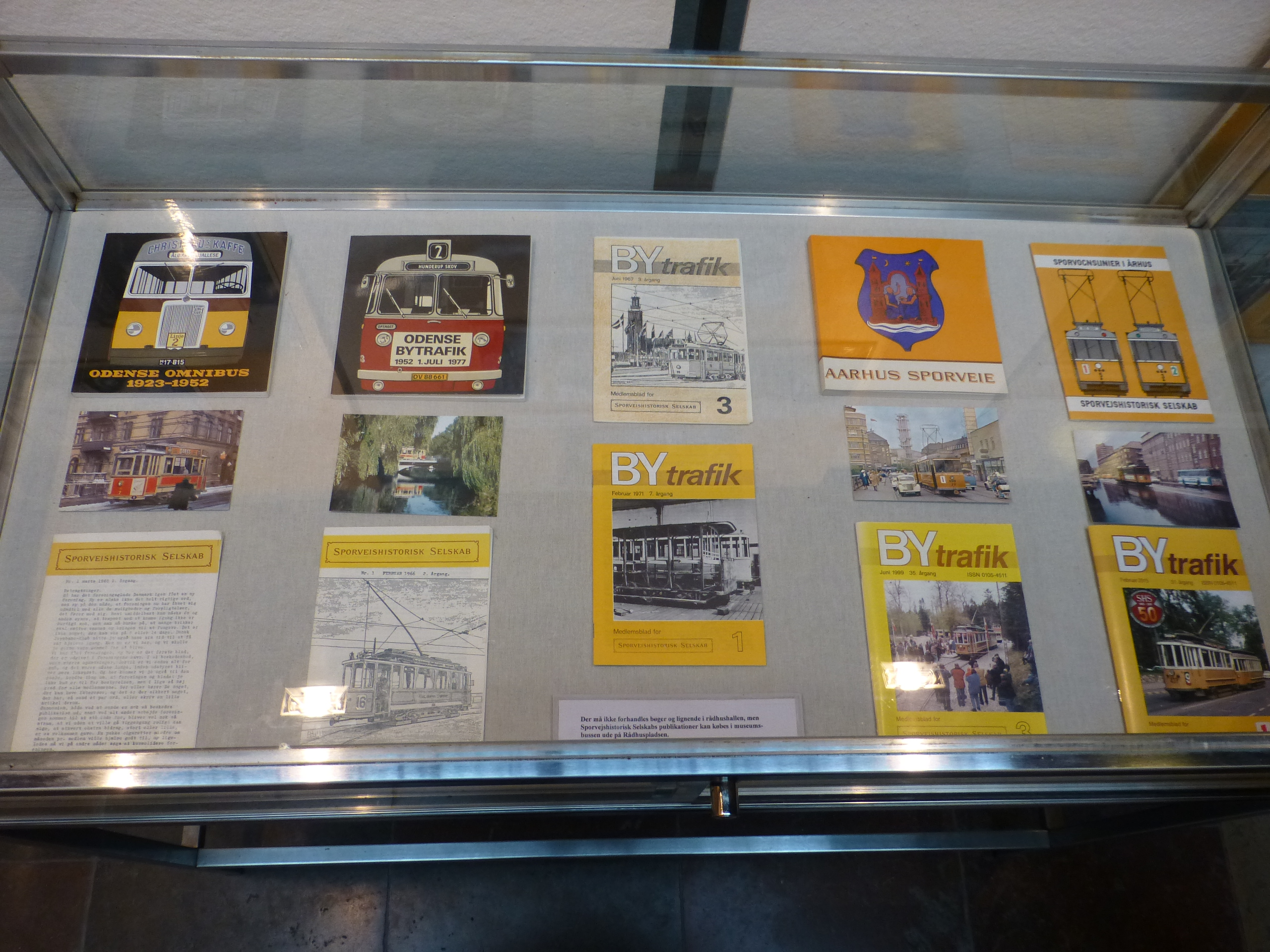 50 years anniversary exhibition of the Danish tramway society, Sporvejshistorisk Selskab, in the town hall of Copenhagen. The members magazine BYtrafik and other publications from Sporvejshistorisk Selskab.